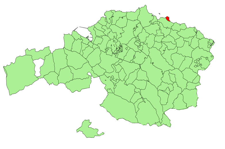 Elantxobe municipality in the province of Biscay